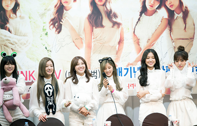 A Pink at a fansigning in Mokdong on 11 December 2014. Left to right: Hayoung, Bomi, Eunji, Chorong, Naeun and Namjoo.